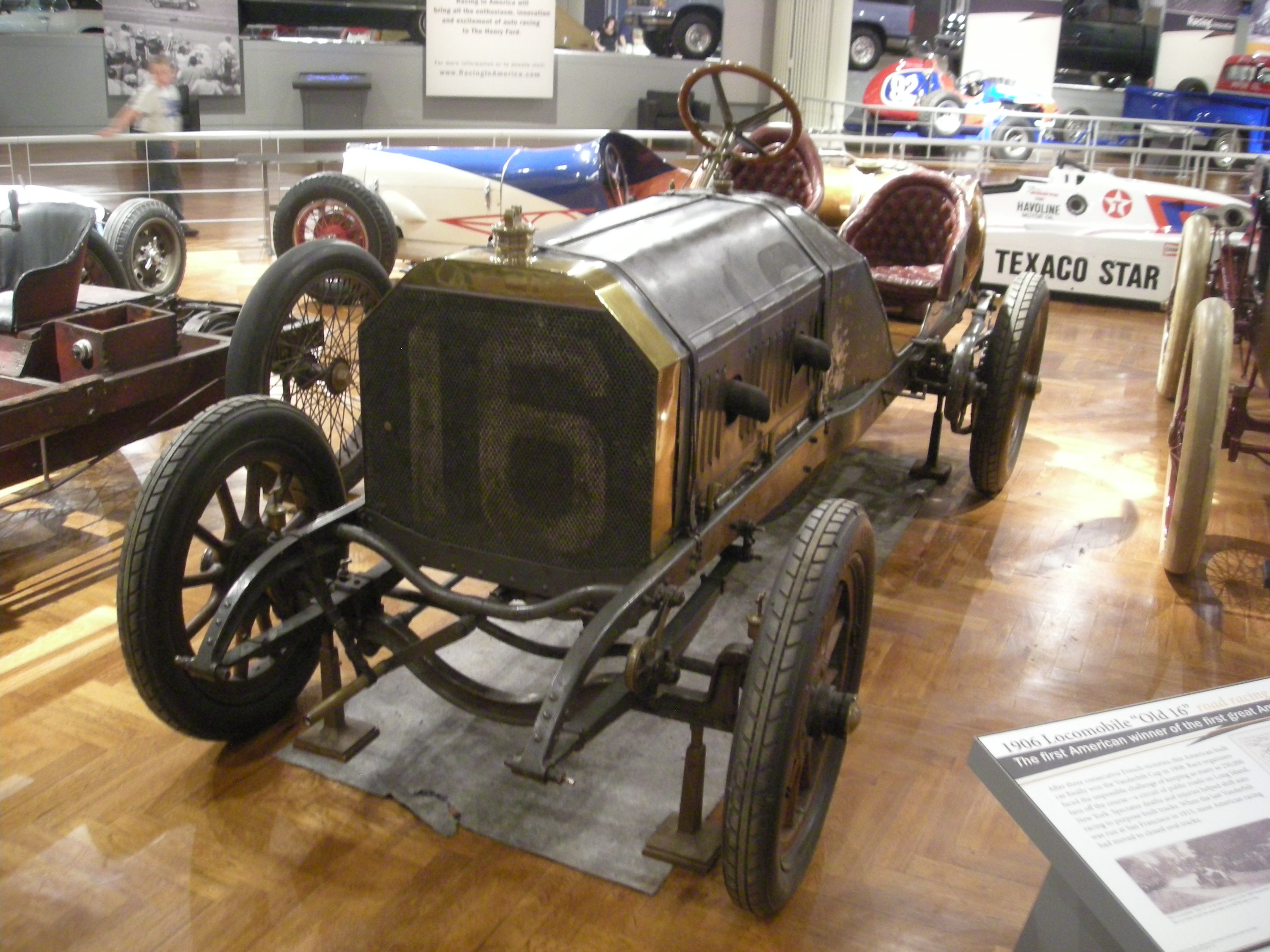 A 1906 Locomobile "Old 16" on display at the Henry Ford Museum in Dearborn, Michigan (United States).